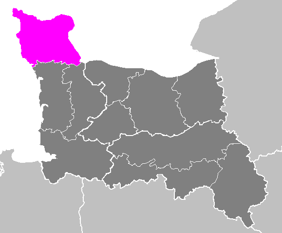 Maps of arrondissements and cantons of France: Arrondissement de Cherbourg